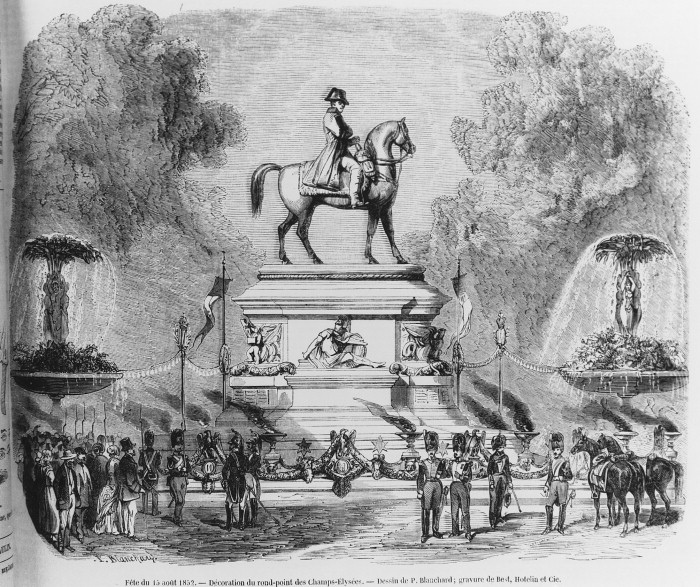 equestrian statue of Napoleon I, by the sculptor Alfred Emile O'Hara, comte de Nieuwerkerke, first exhibited on Rond Point des Champs Elysees in Paris, France. Title of the engraving: "Fete du 15 Aout, Equestrian statue of Napoleon, first exhibitted 1852-08-15"